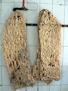 Sangak